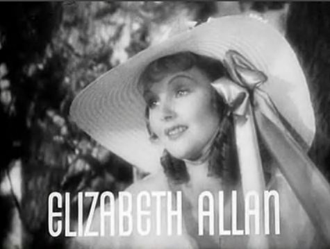 Elizabeth Allan in the trailer for the film Camille (1936) (trailer from 1937 re-issue)